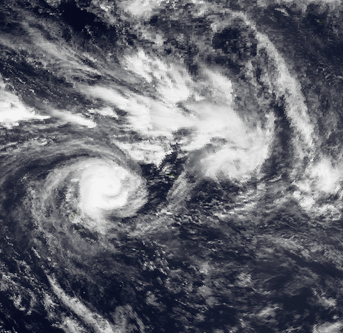 Tropical Cyclone Raja (on the left) and the tropical disturbance that would become Tropical Cyclone Sally (right) interacting on December 26, 1986.